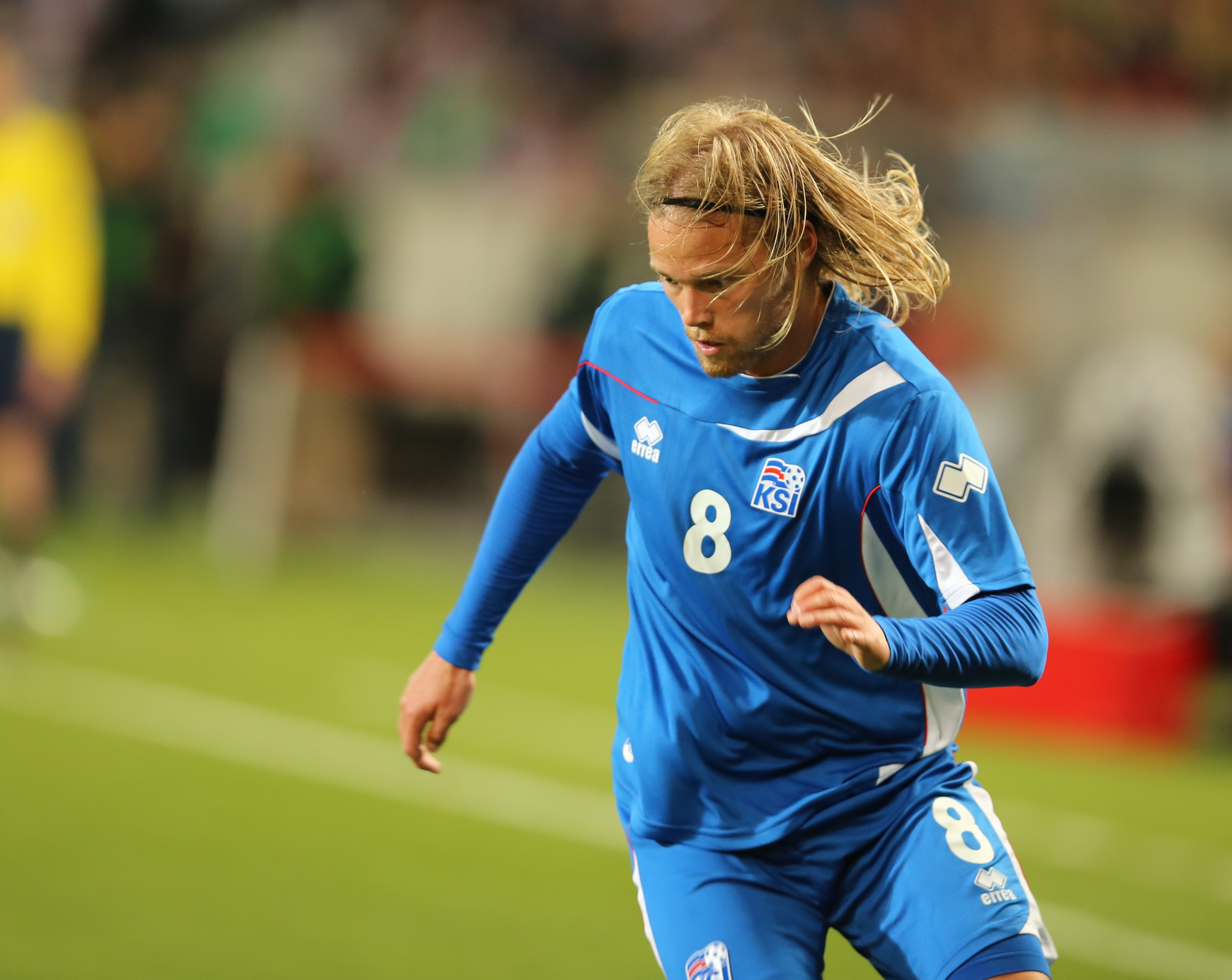 Austria - Iceland football match in Innsbruck, Austria on 2014-05-30. Austria in red, Iceland in blue.